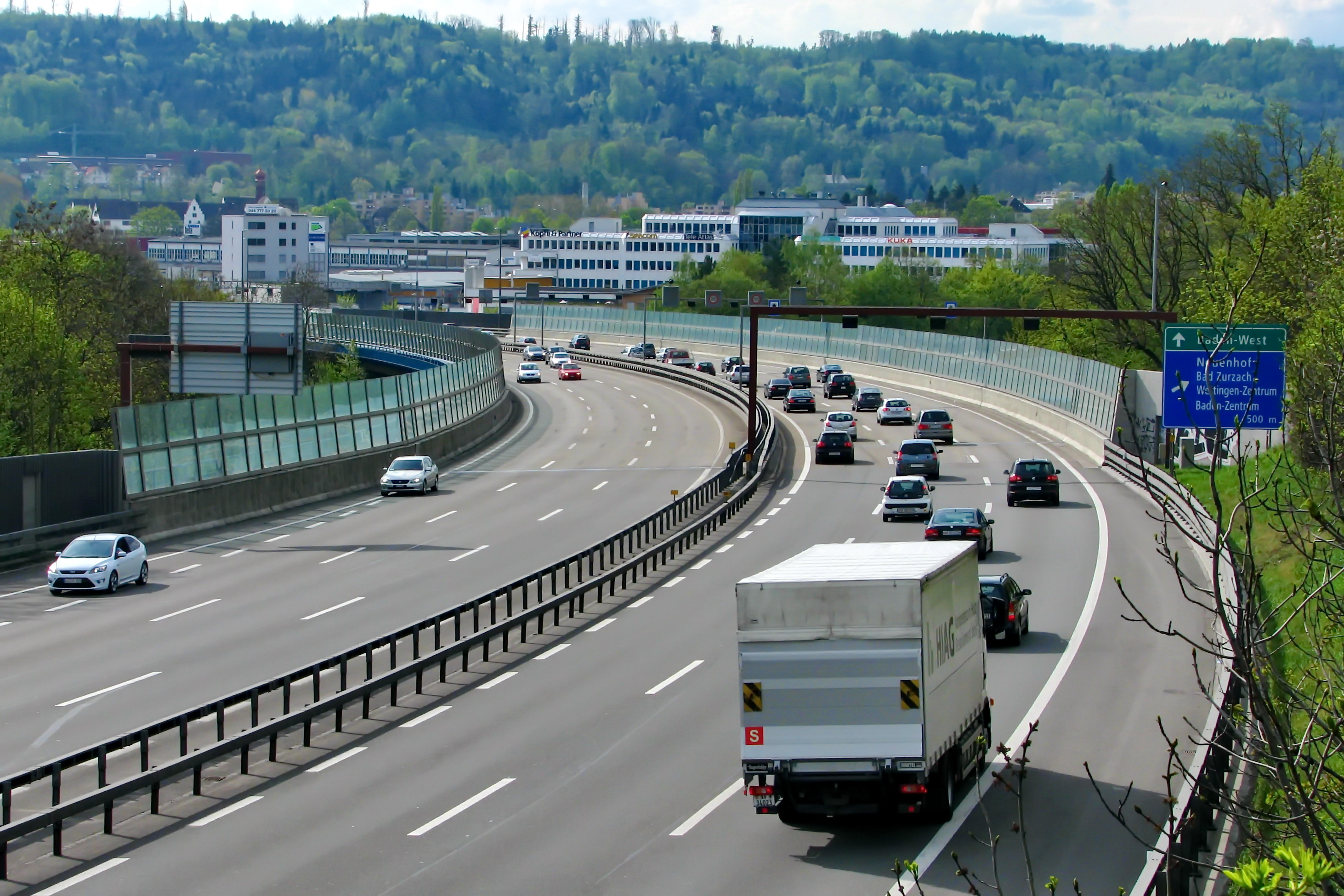 A1 motorway in Wettingen in the Limmat Valley (Switzerland)